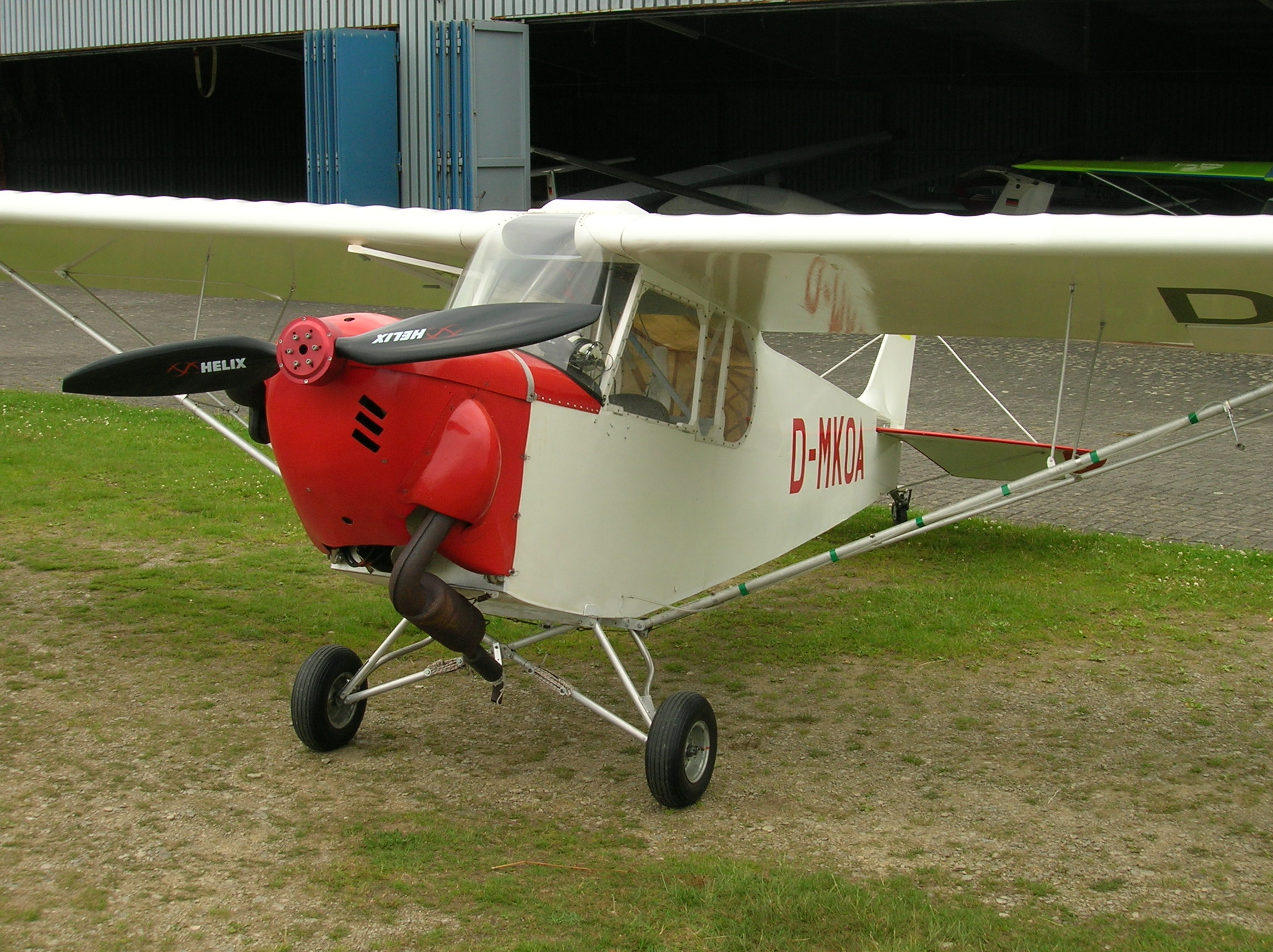 Fisher FP-202 Koala. Picture was taken at german airfield Schmallenberg-Rennefeld